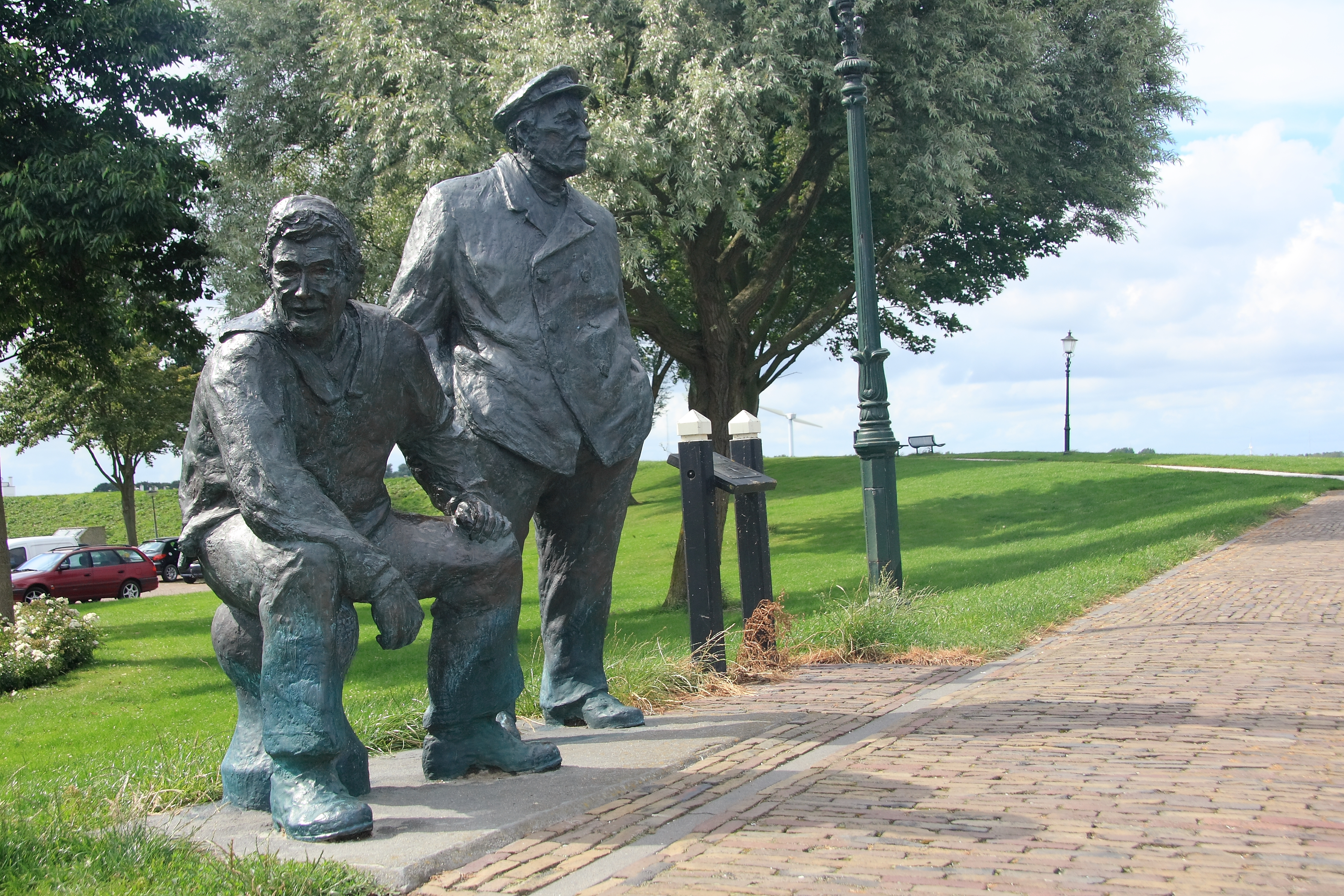 Sculpture 'De beste stuurlui' (The best boatsmen are ashore) at the harbourmouth in Medemblik, North Holland, Netherlands. Bronze, by Jan van Velzen